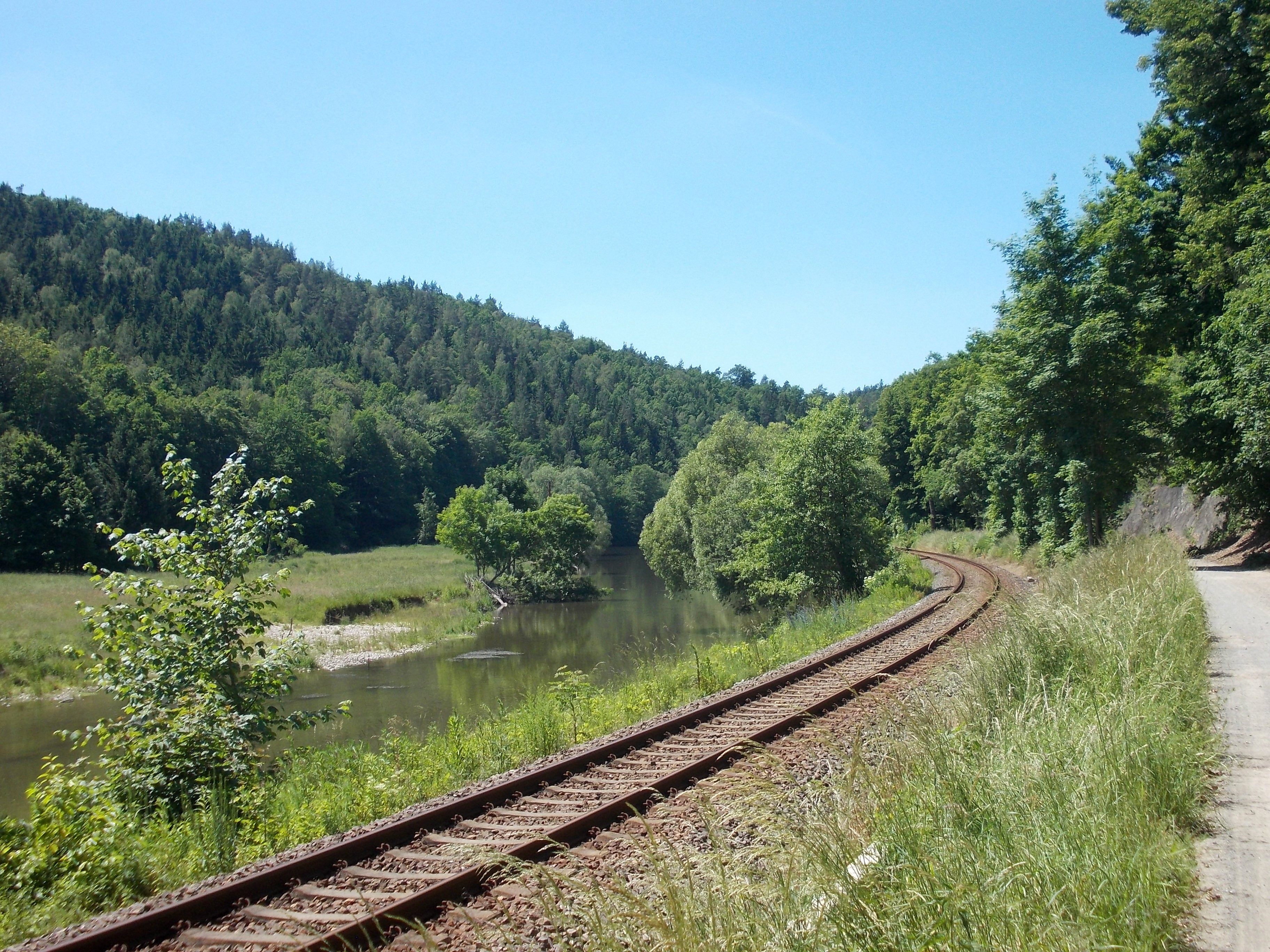 In the valley of the Weisse Elster near Berga (Greiz district, Thuringia)